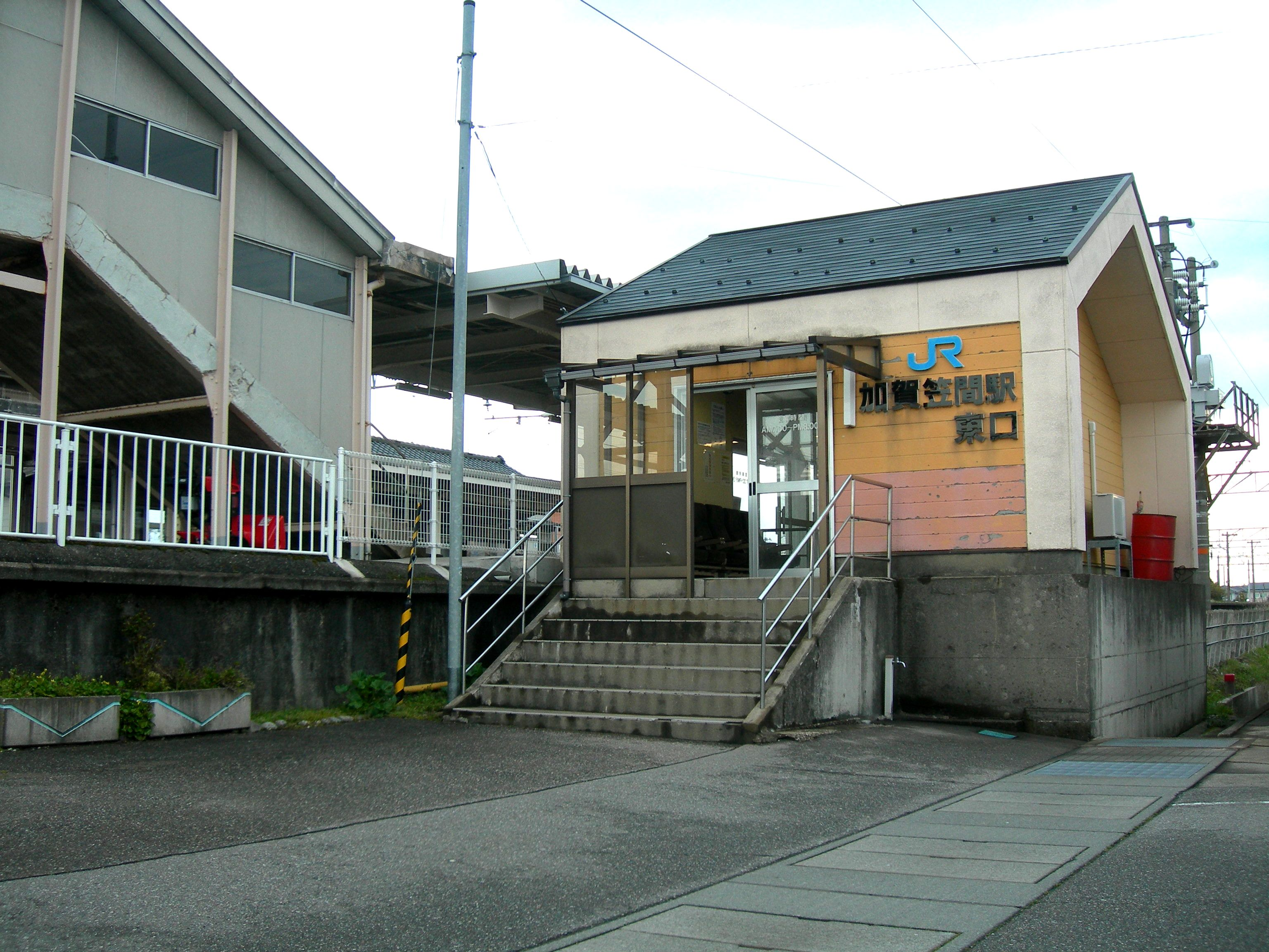 Kaga-Kasama Station east exit